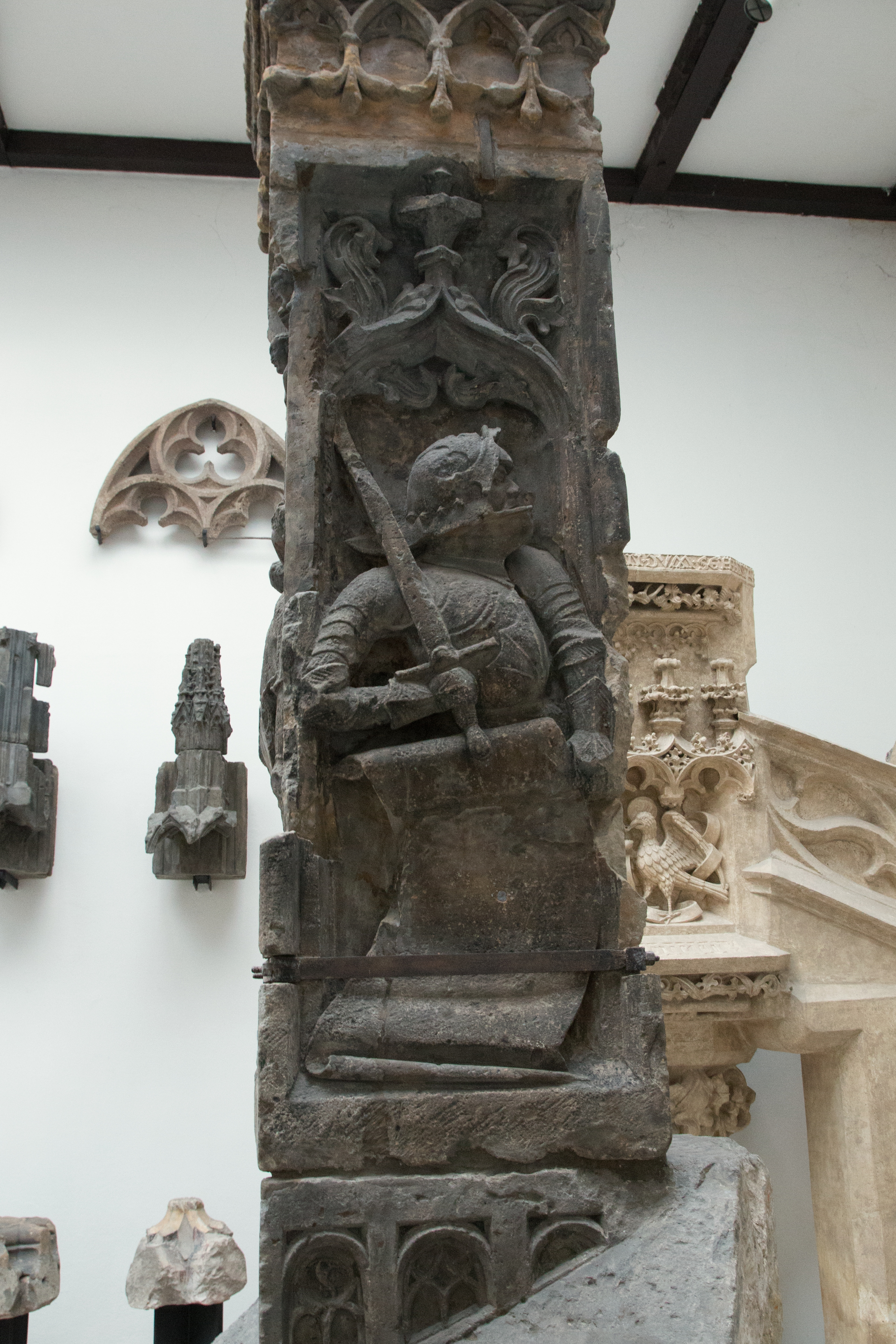 Pillar with torso called Bruncvík (the symbol of the customs rights of the Old Town of Prague). From the pillar of Charles Bridge, damaged in 1648. Beginning of the 16th century, probably 1500-1504, sandstone. Probably Matyas Rejsek (about 1445-1506). Lapidarium of the National Museum in Prague, cat. no. 215.